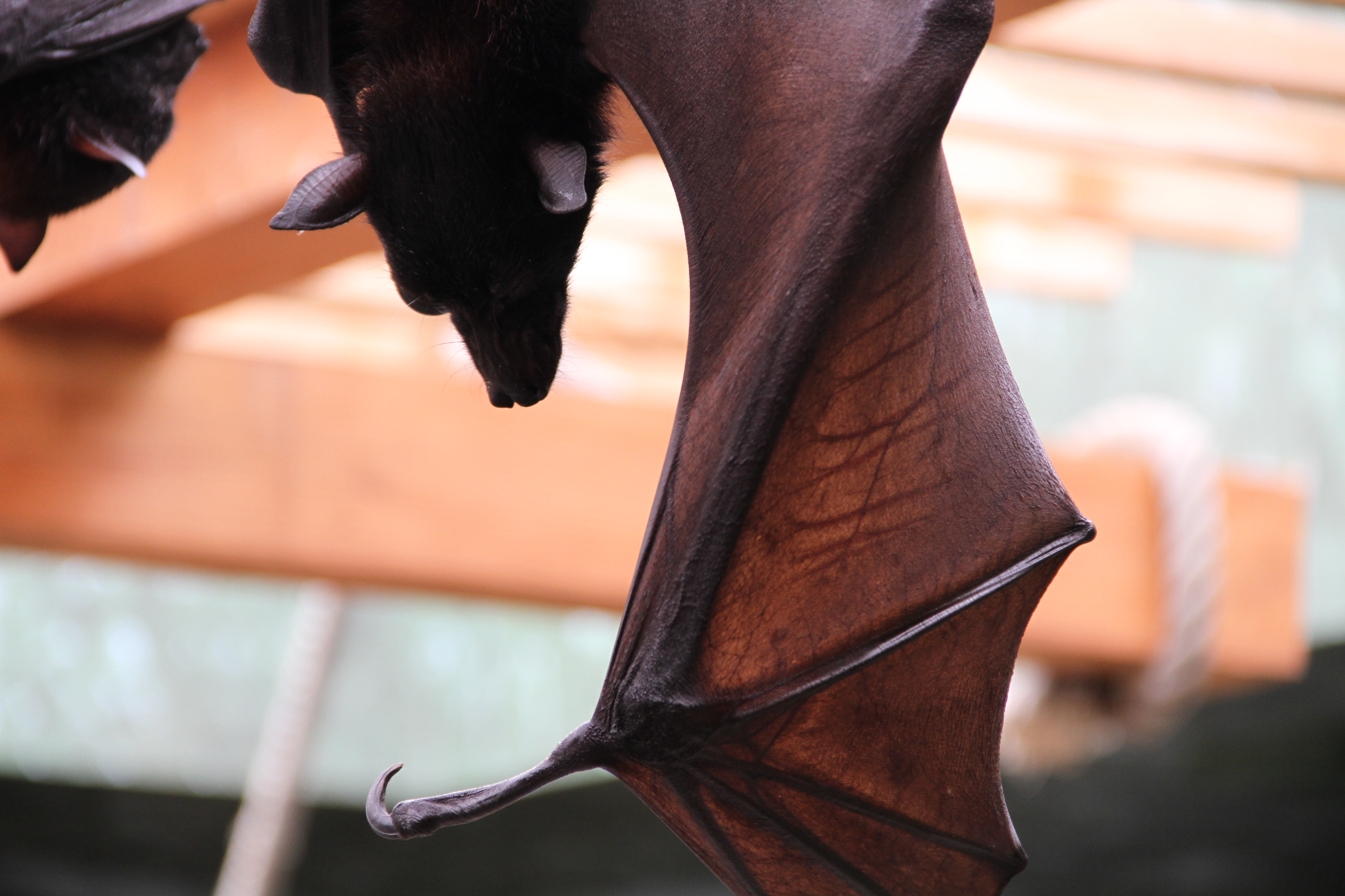 Giant Fruit Bat at Columbus Zoo and Aquarium